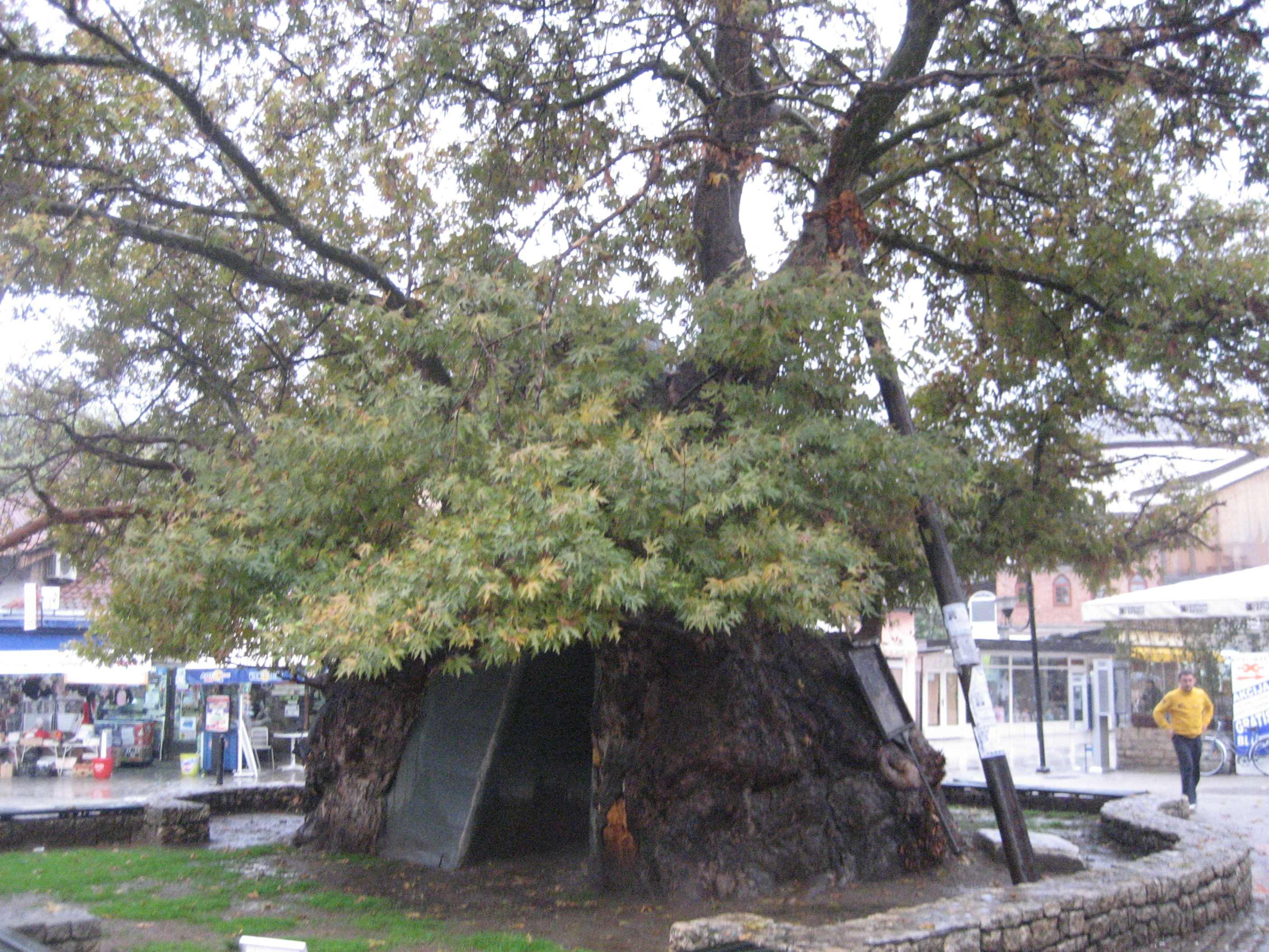 1100 years old tree in Ohrid, Macedonia